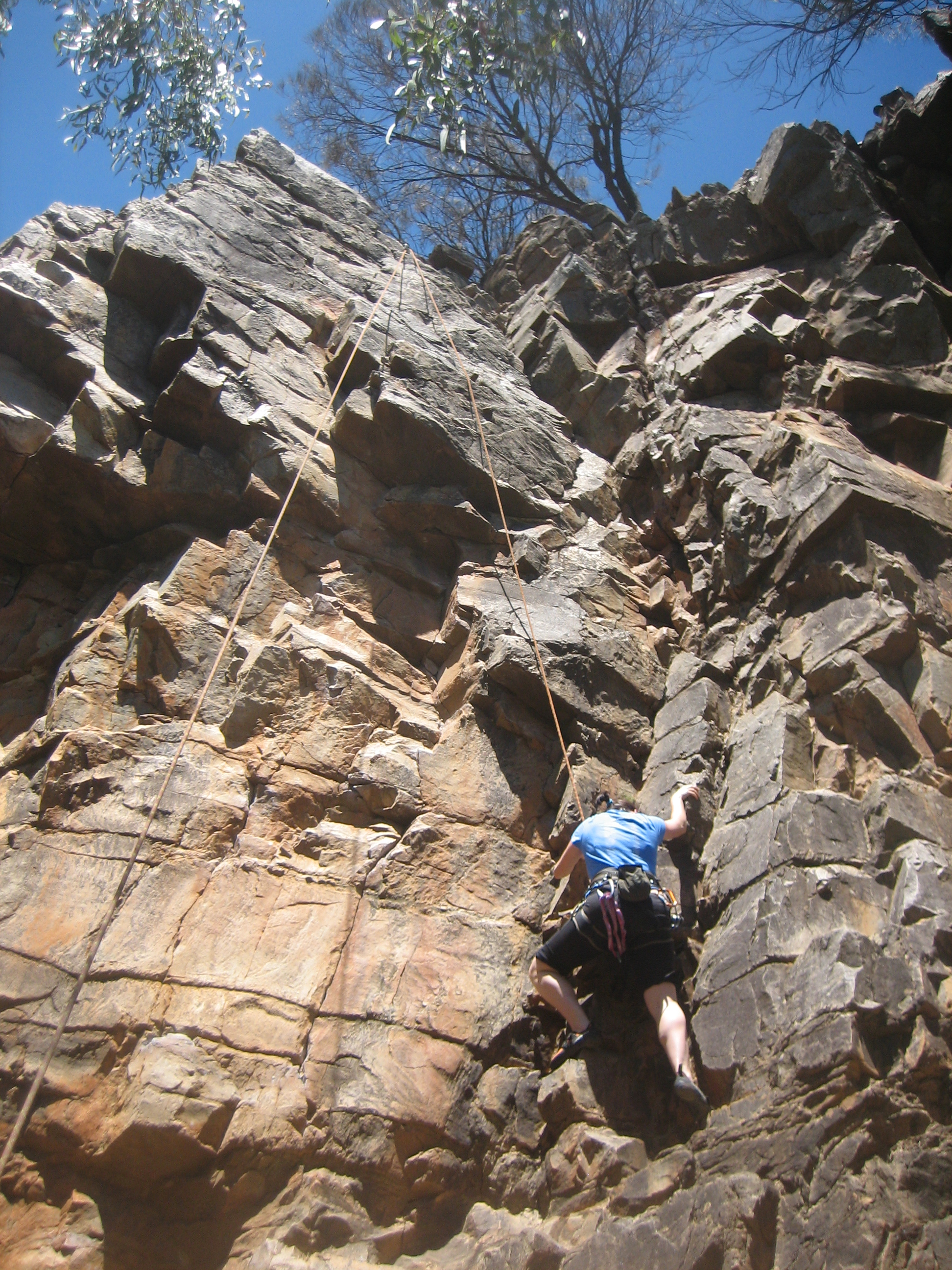 Nat makes her way up Balthazar (12) in the Boulder Bridge area at Morialta Conservation Park, a public reserve 10 km north-east of Adelaide, South Australia, Australia